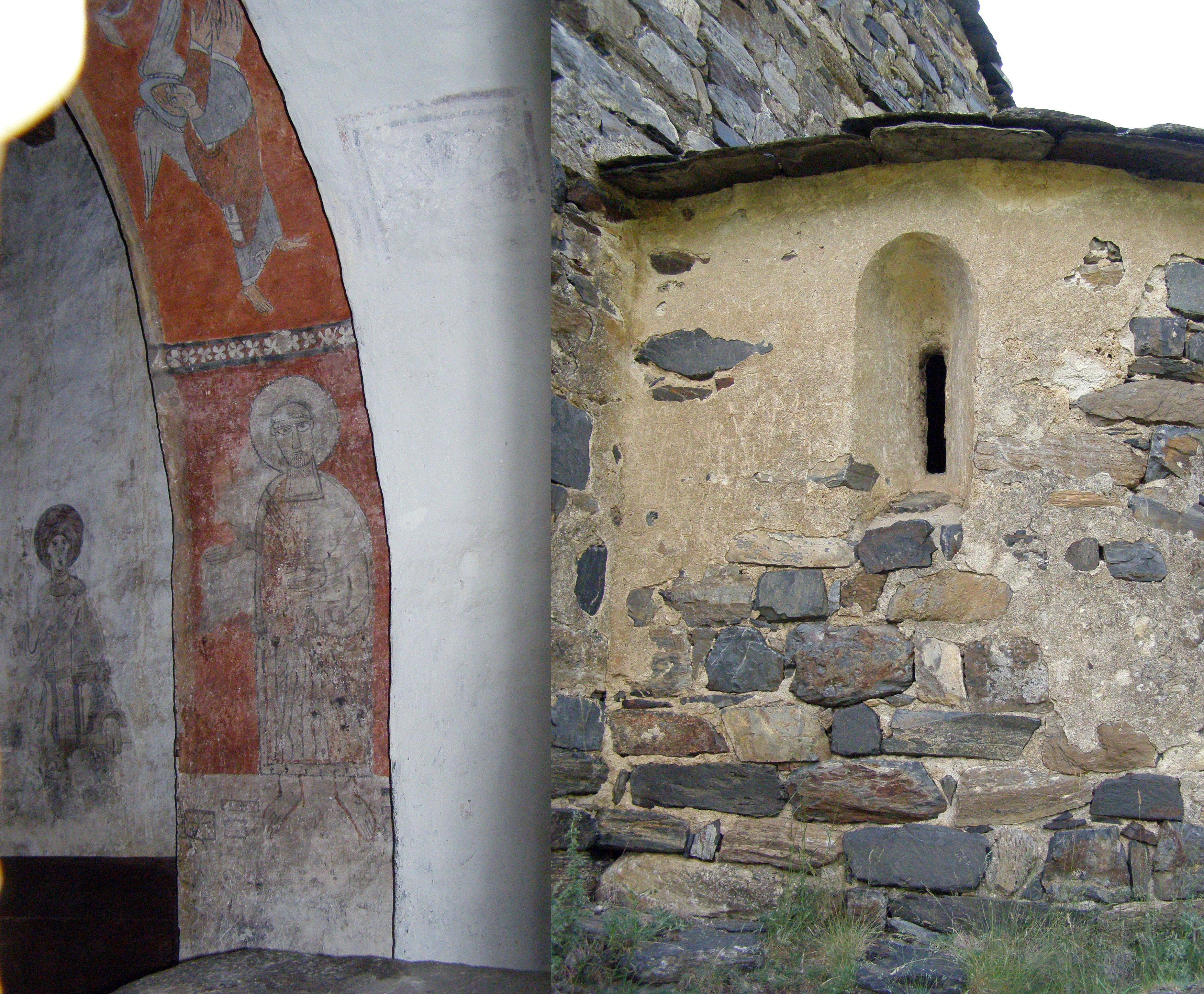 Composite of two photographs, one for the inside